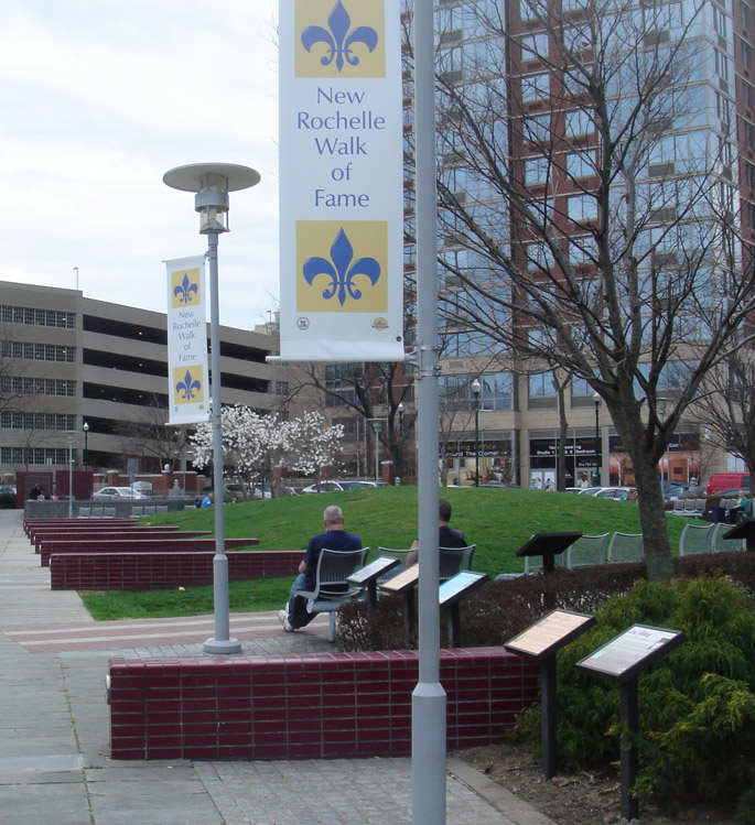 The New Rochelle Walk of Fame was installed in 2011 and is located in Ossie Davis Park at Library Green, in the heart of downtown New Rochelle.